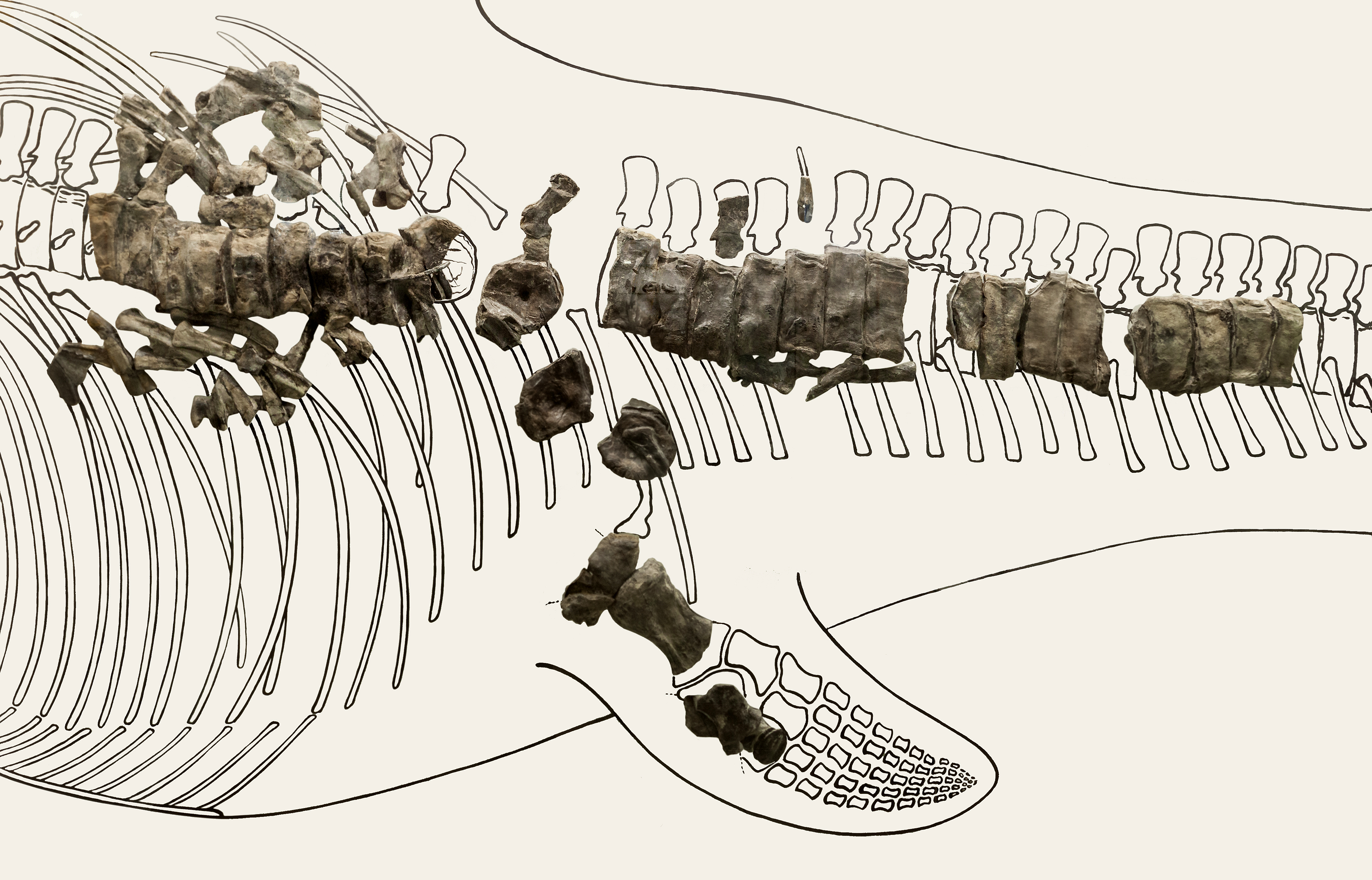 Cymbospondylus spec; Buchenstein formation, Lower Ladinian, Middle Triassic; Seceda, Dolomites; Museum de Gherdëina, Urtijëi, South Tyrol, Italy. For detailed data and original description see here